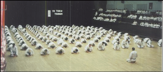 Photo copyrights released by the owner and sent to